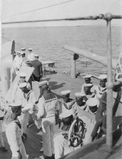 Somalis on the quaterdeck of HMS Venus at Singapore